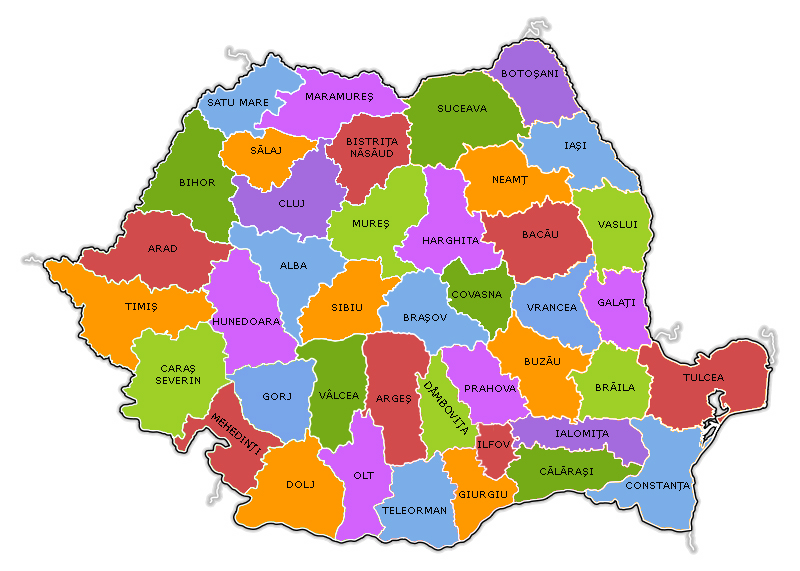 Romania's counties (Judeţe) simple